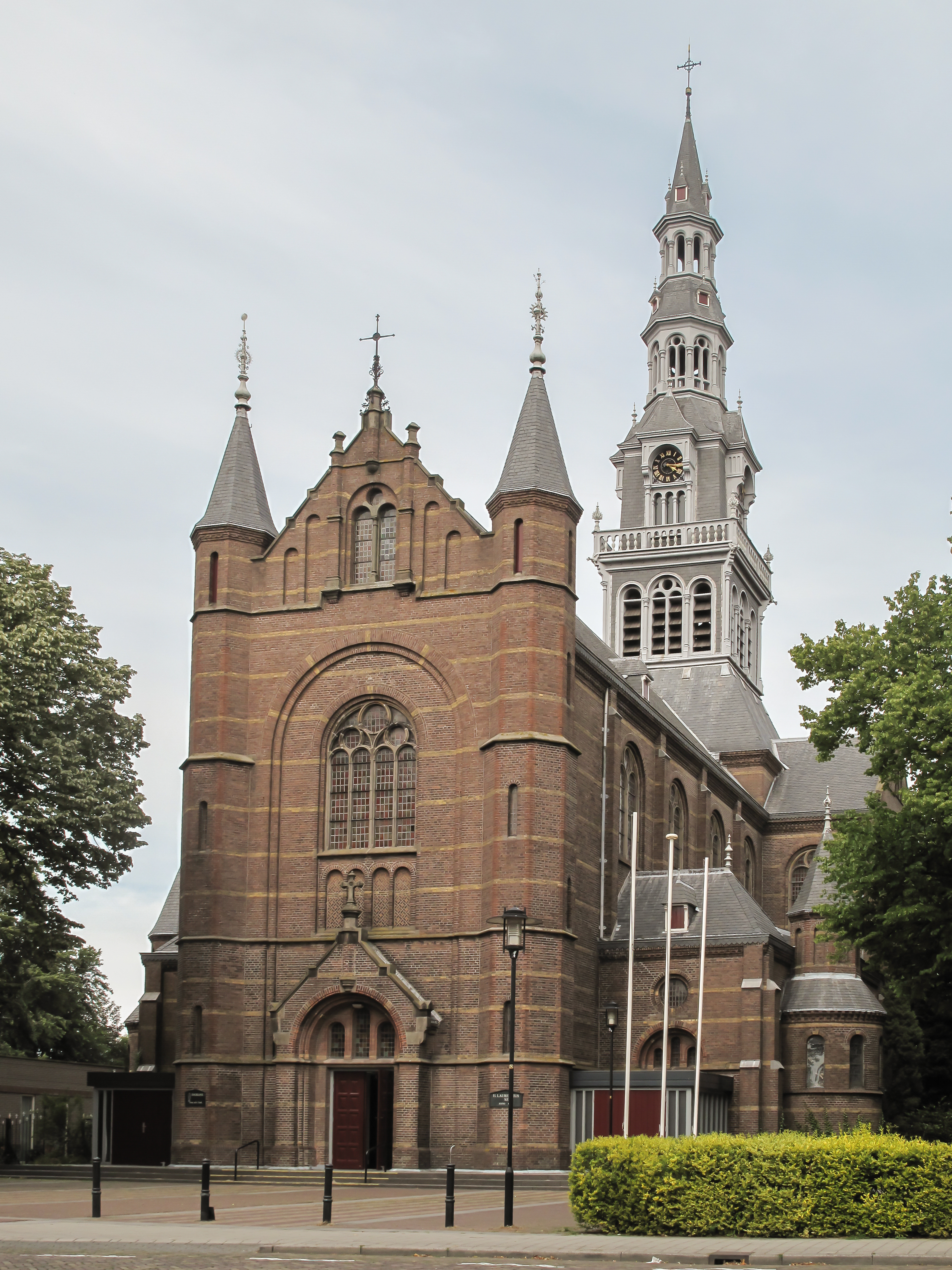 Heemskerk, church: Heilige Laurentiuskerk